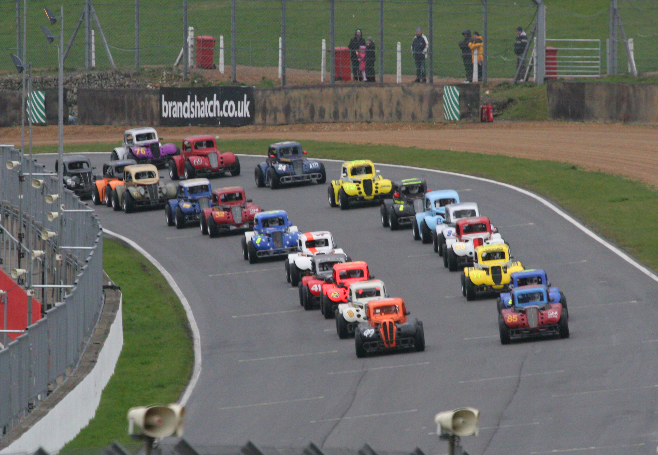 Legends Car Championship. Rolling start.